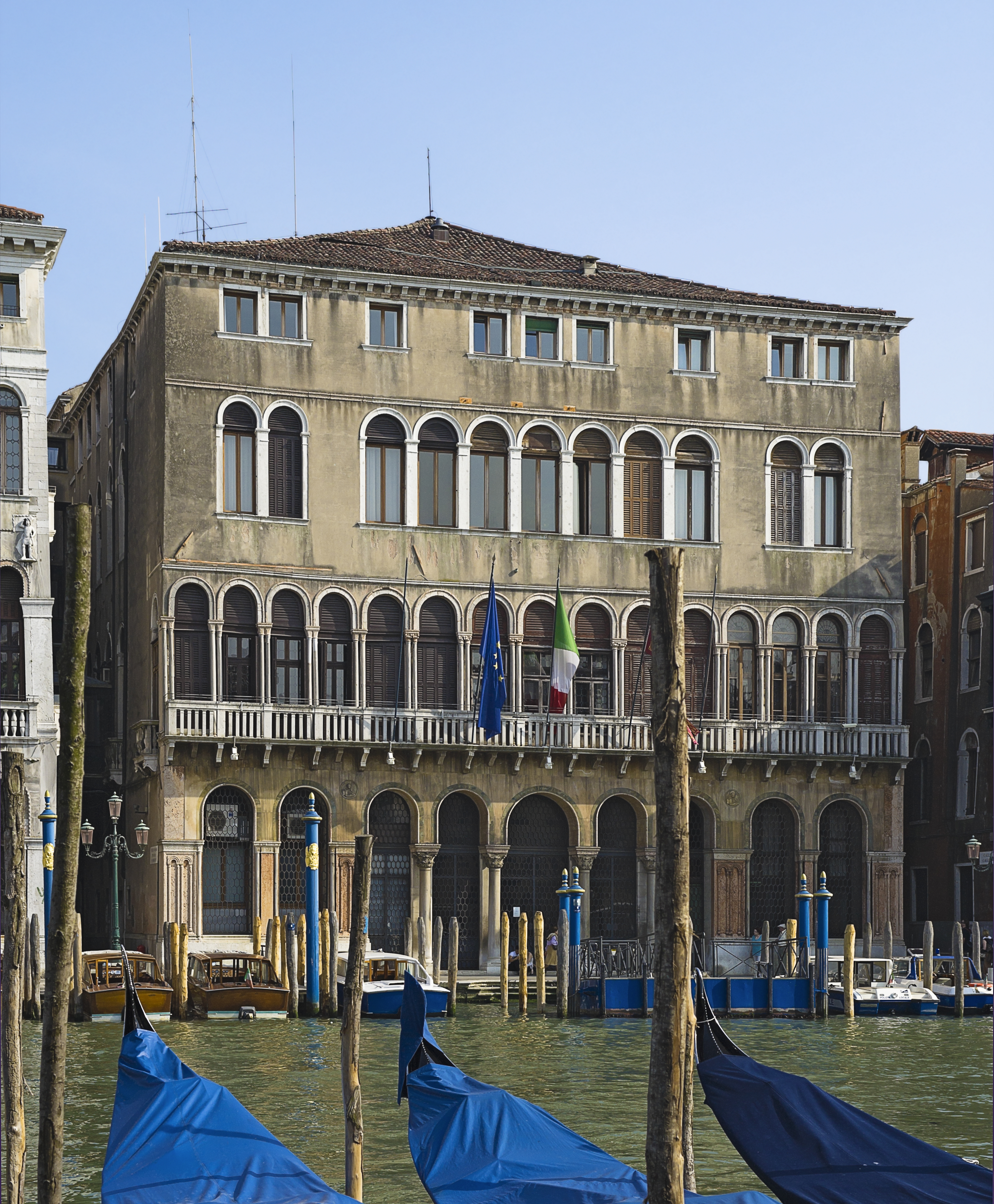 Ca' Farsetti Dandolo, Venice , city hall palaces of Venice. facade.